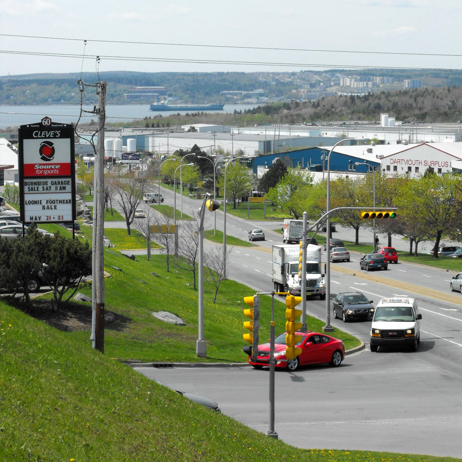 View of Akerley boulevard, Burnside Industrial Park, Nova Scotia